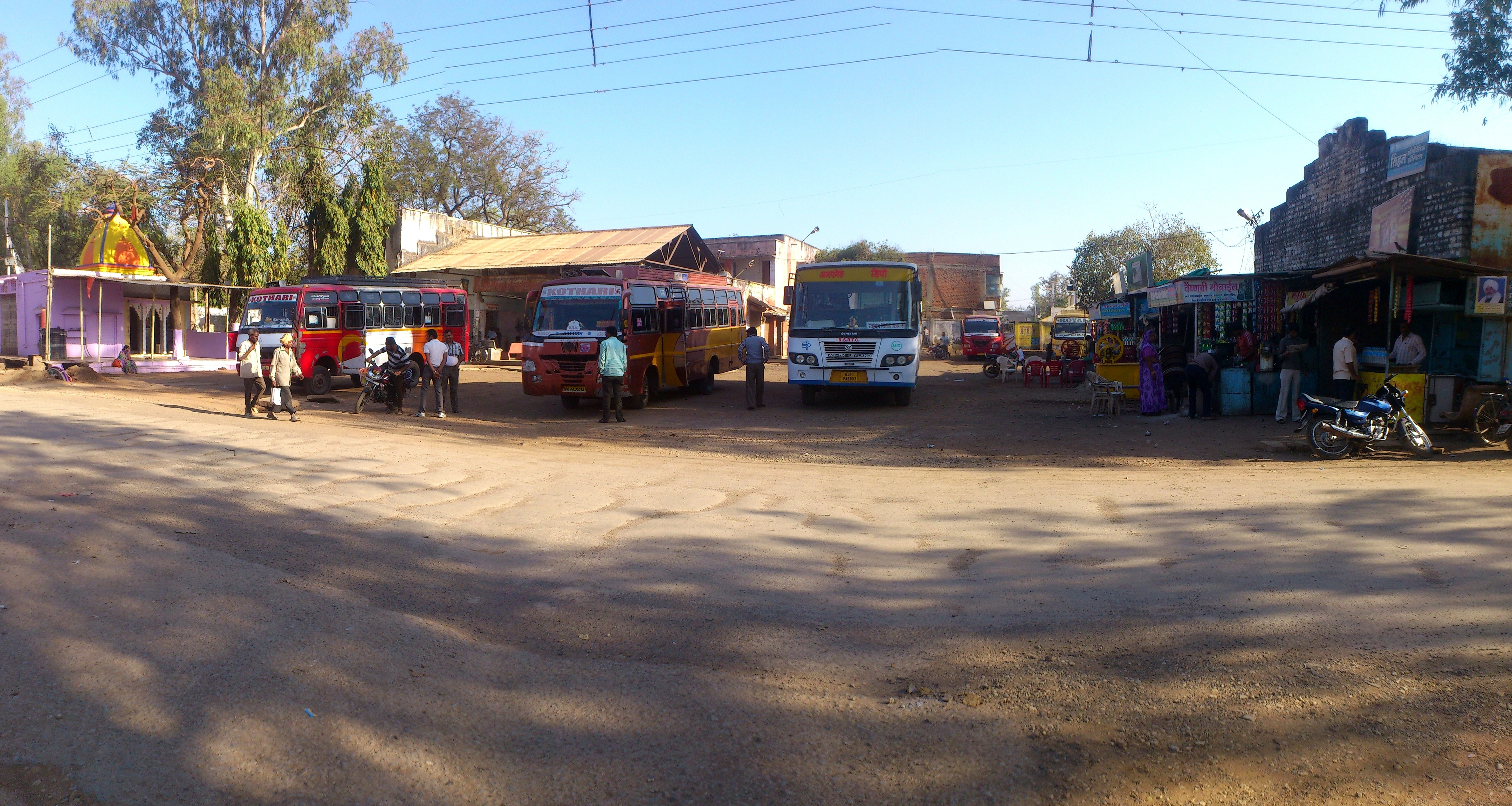 Govt. Bus Stand Neemuch